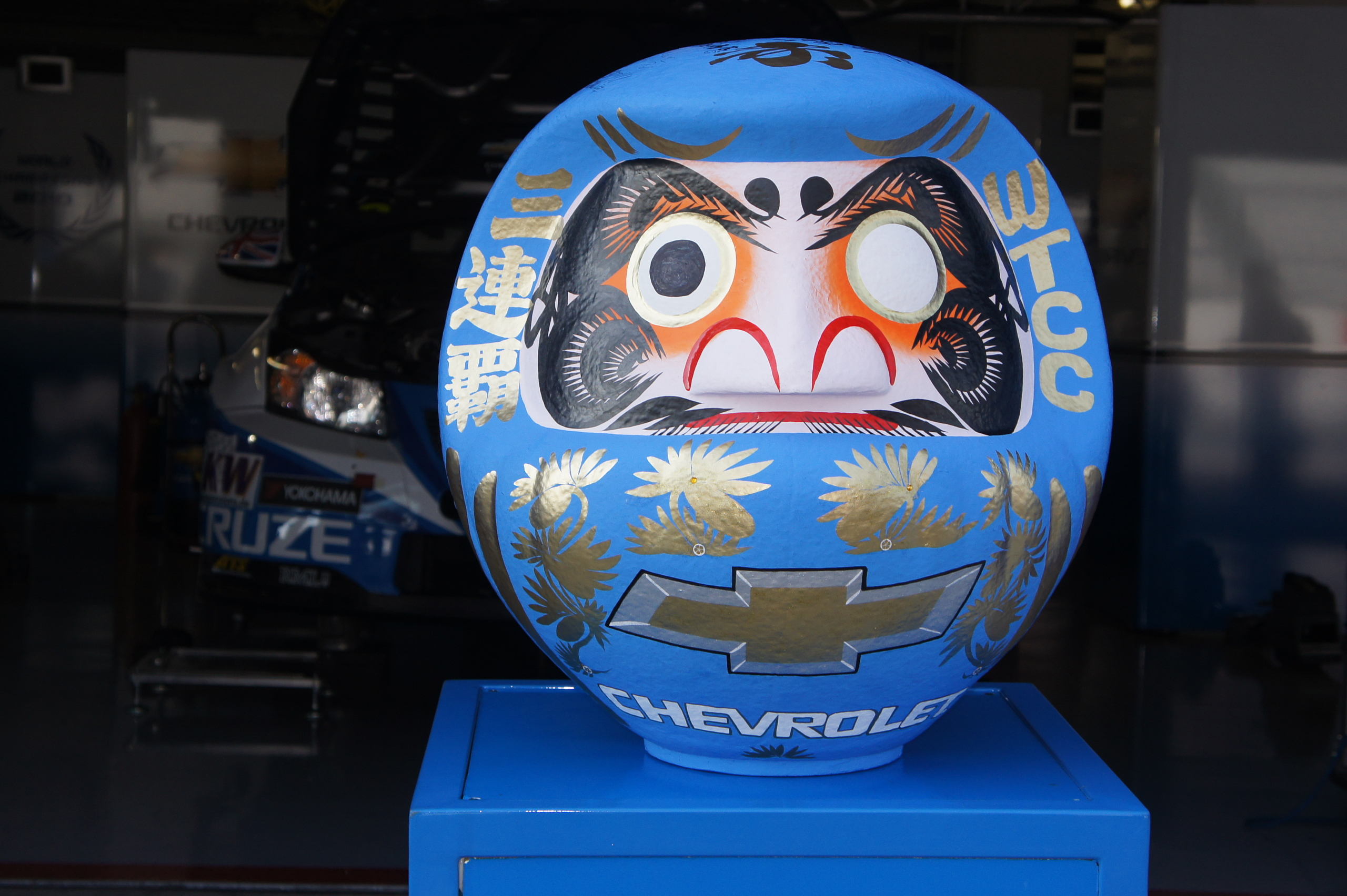 World Touring Car Championship 2012 Race of Japan: Chevrolet's daruma